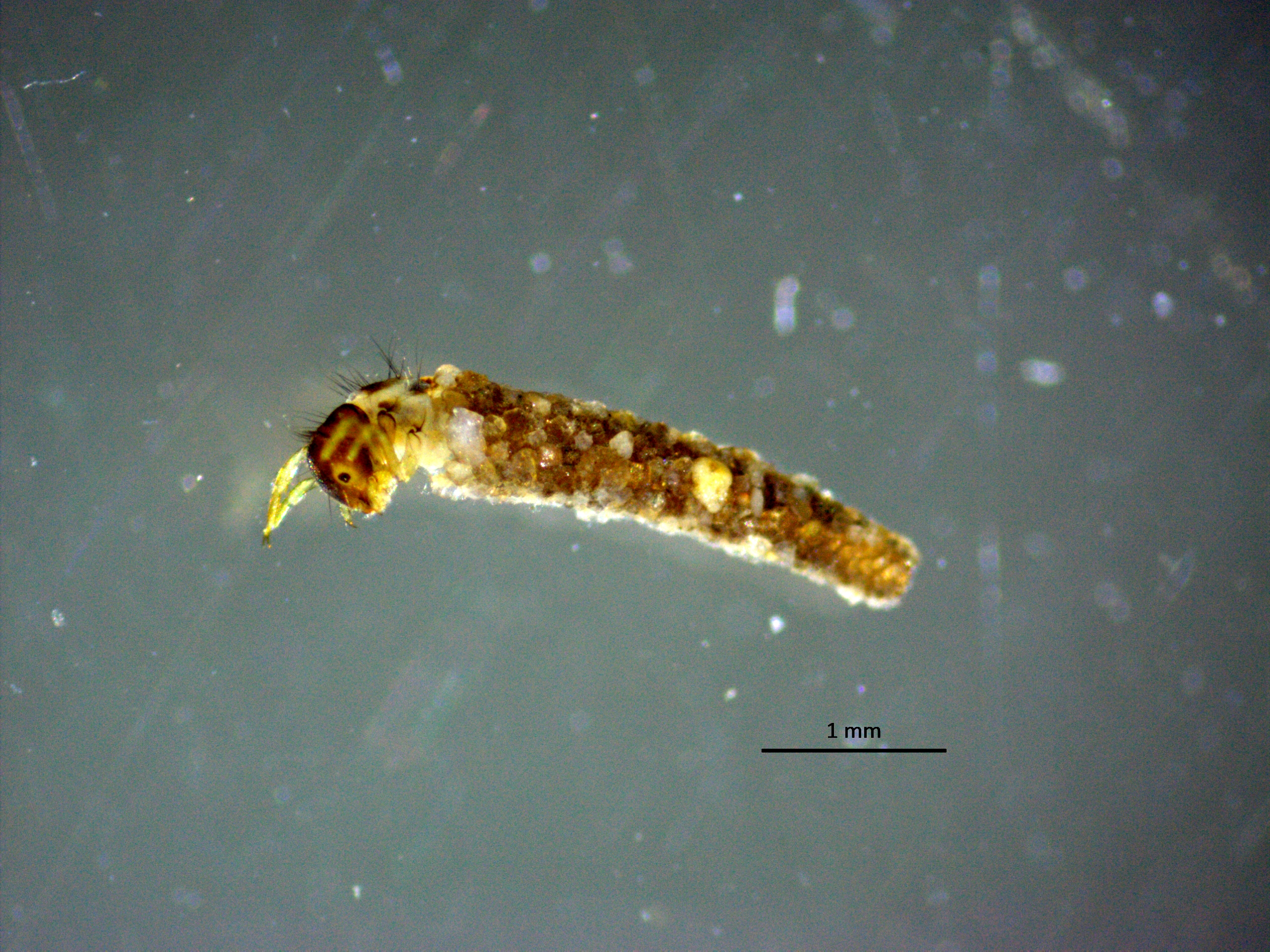 Lepidostoma hirtum larva from Lisinska river (SE Serbia). Српски (ћирилица): Ларва Lepidostoma hirtum из Лисинске реке (општина Босилеград, ЈИ Србија).